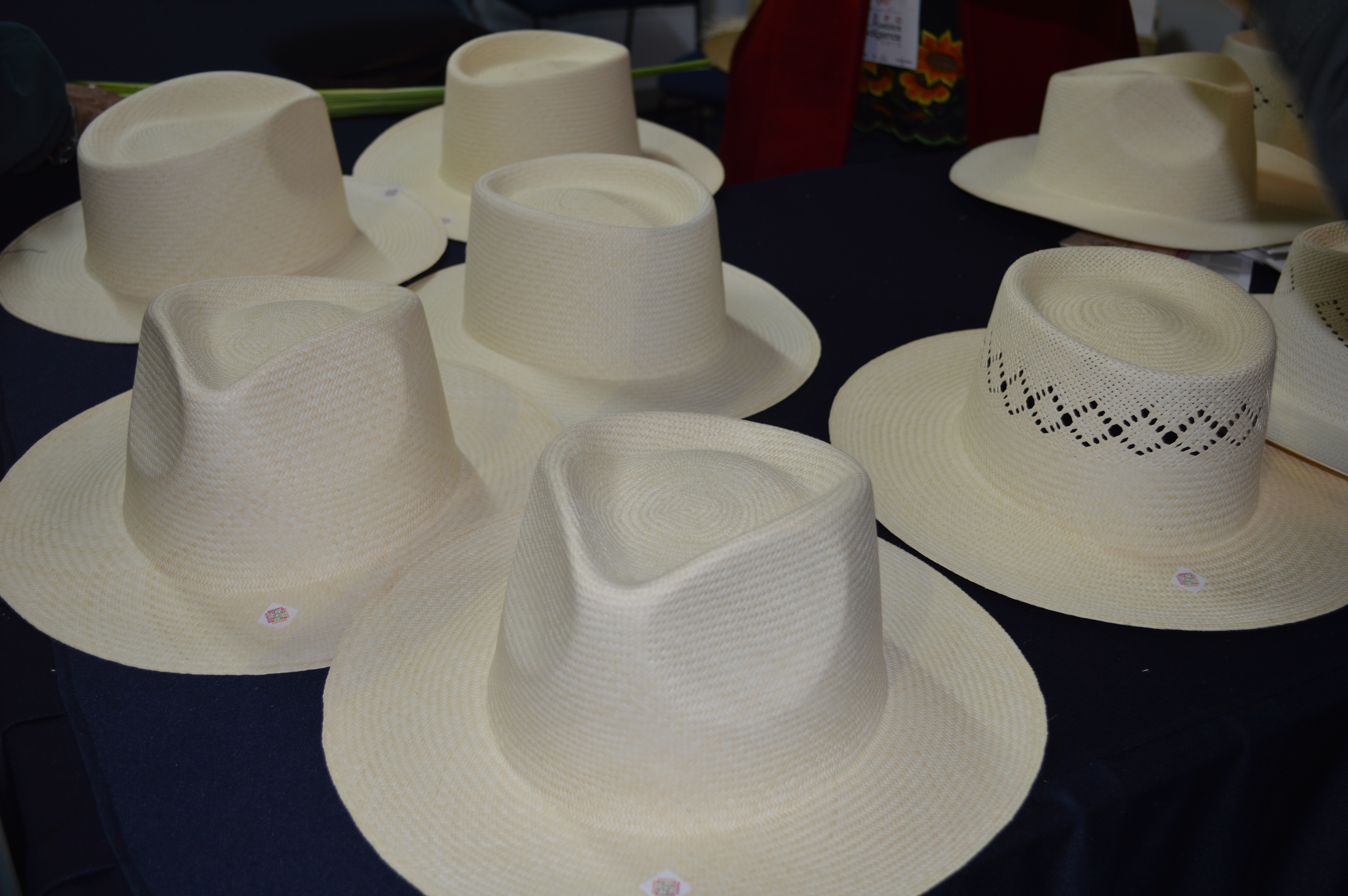 hats woven from a palm called "jipi" from Calkini, Campeche at the Expo de los Pueblos Indígenas in Mexico City